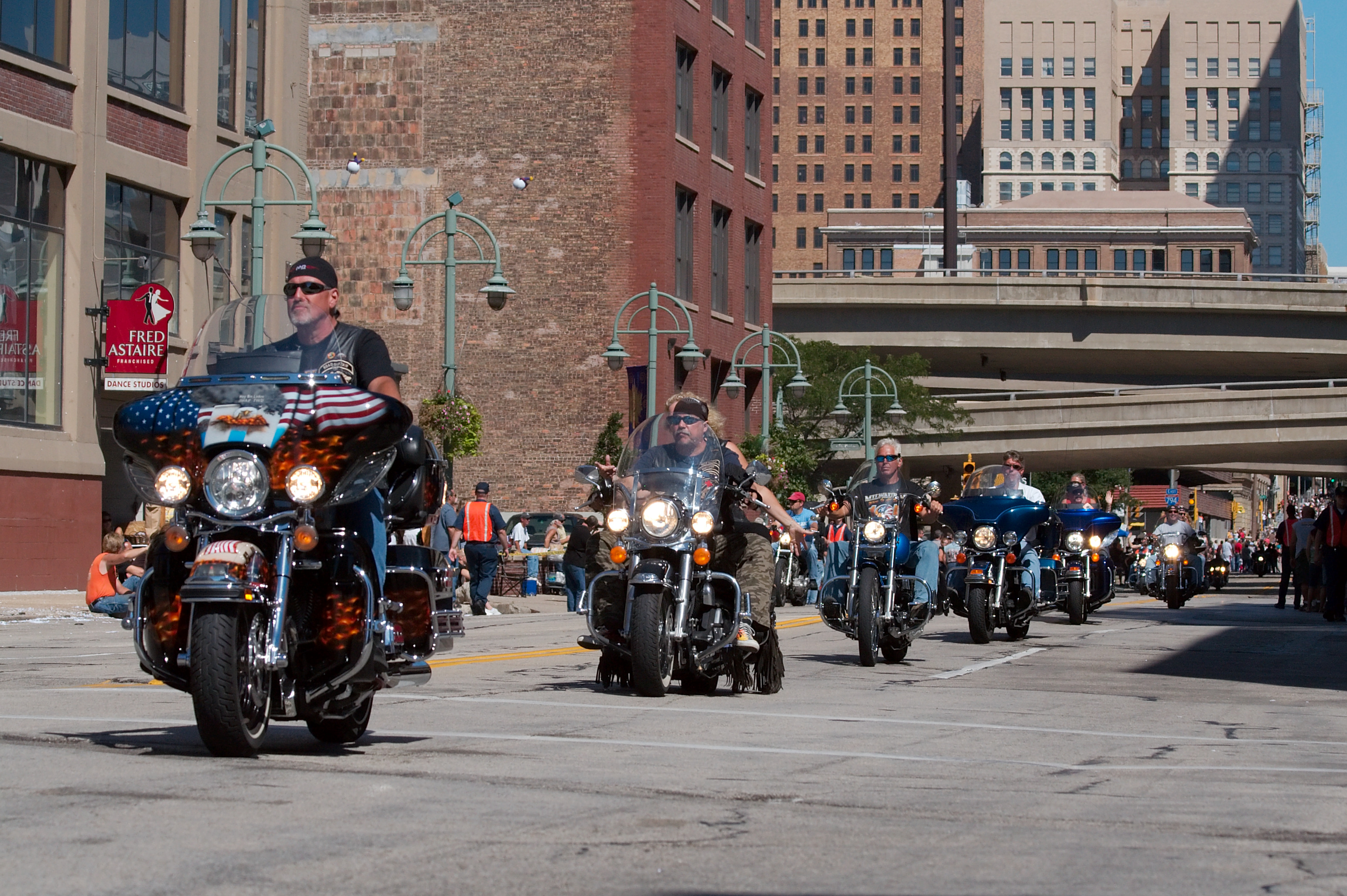 Bikers during Harley-Davidson's 105th anniversary parade in Milwaukee, Wisconsin